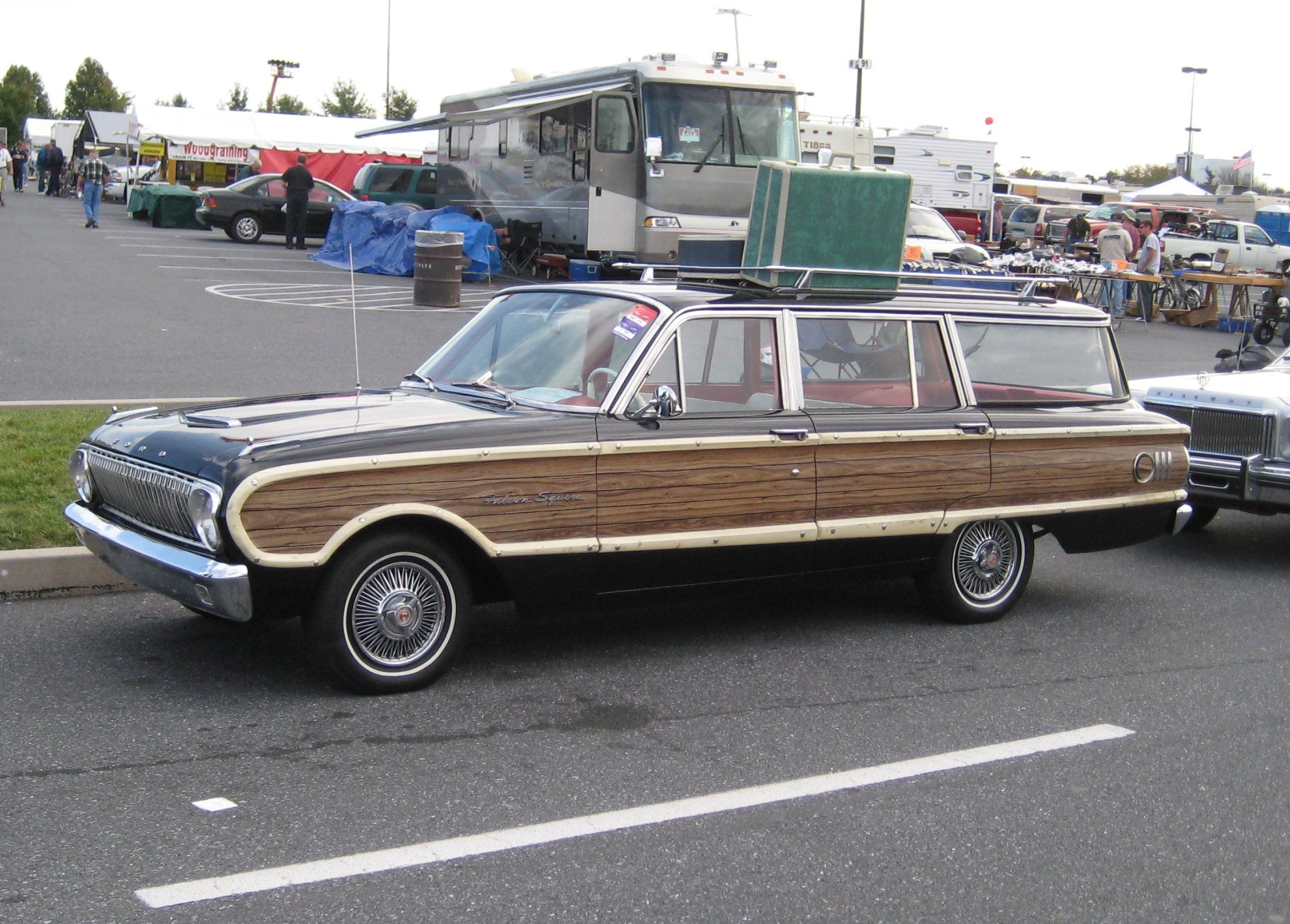 Seen with the cars for sale Car Corral at the fall meet of the Eastern Region of the Antique Automobile Club of America, Hershey, Pennsylvania, October 2009.